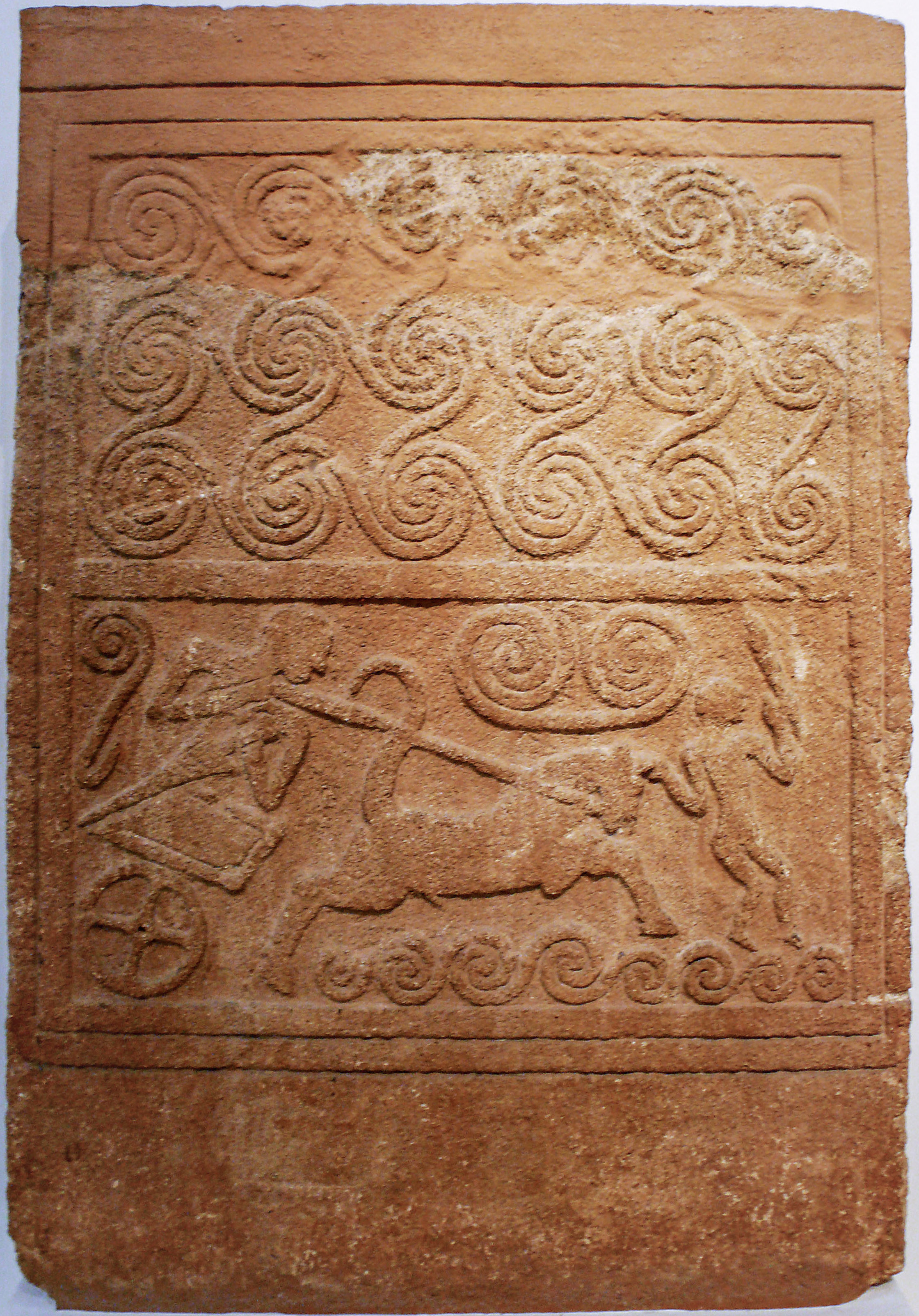 Funerary stele made of Poros stone with chariot scene relief. Mycenae, Grave Circle A, Grave V. 1500 BC. National Archaeological Museum of Athens. The spirals in the upper panel may represent waves, thus indicating the coastal location of the scene in the lower panel. The standing charioteer pulls at the reins, while a second figure, who holds a weapon, possibly a sword, in his left hand, is depicted in front of the chariot.